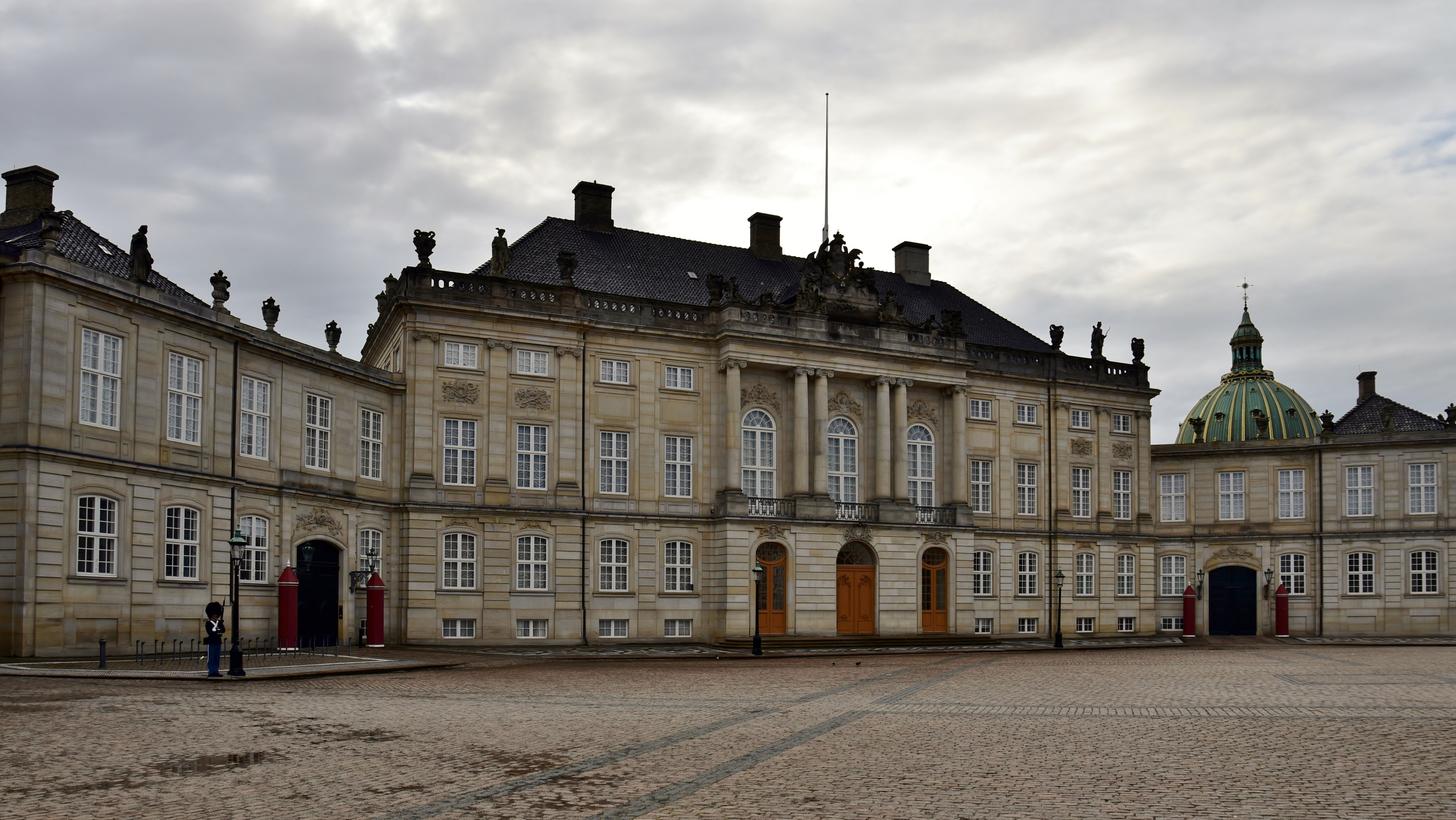 View of Christian VII's Palæ, part of the Amalienborg Palace, Copenhagen